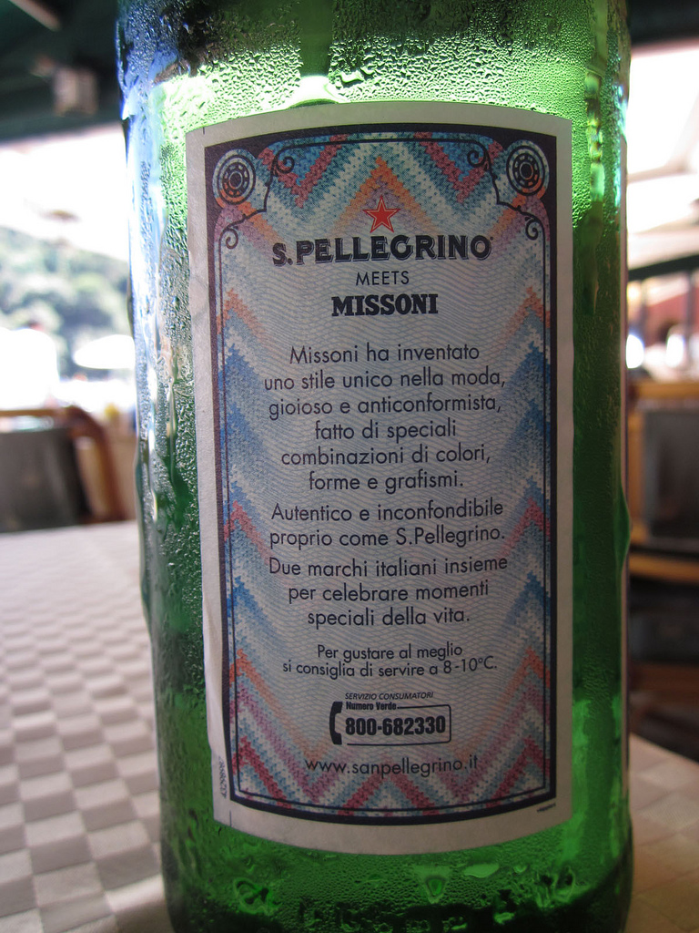 A Pellegrino beverage bottle with a creative Missoni fashion label-style design, photo taken in Portofino, Italy, 2010